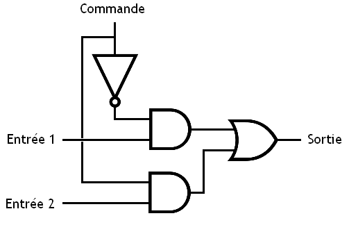 Mux 2 to 1 implementation